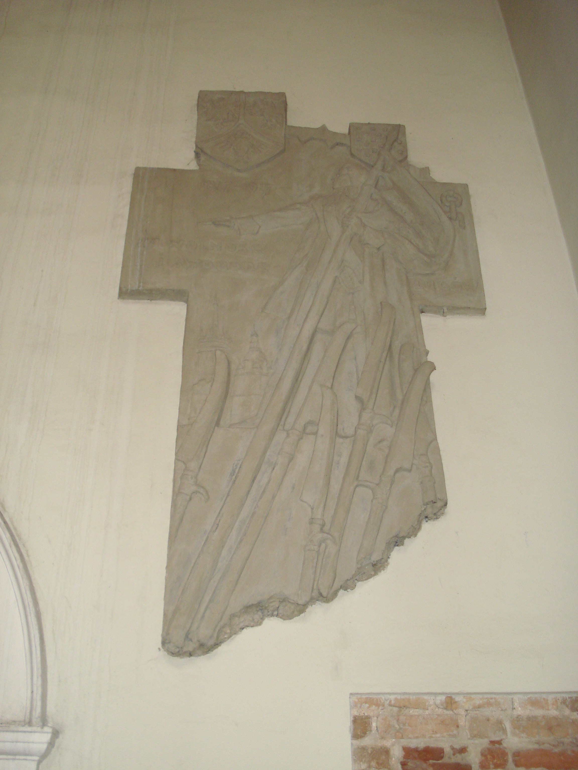 Tadeusz Kostiuszko memorial plaque created by Antoni Wiwulski in the Church of St. Johns (Vilnius). 2007